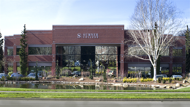 Sumner College, Parkway Campus, Tigard, Oregon